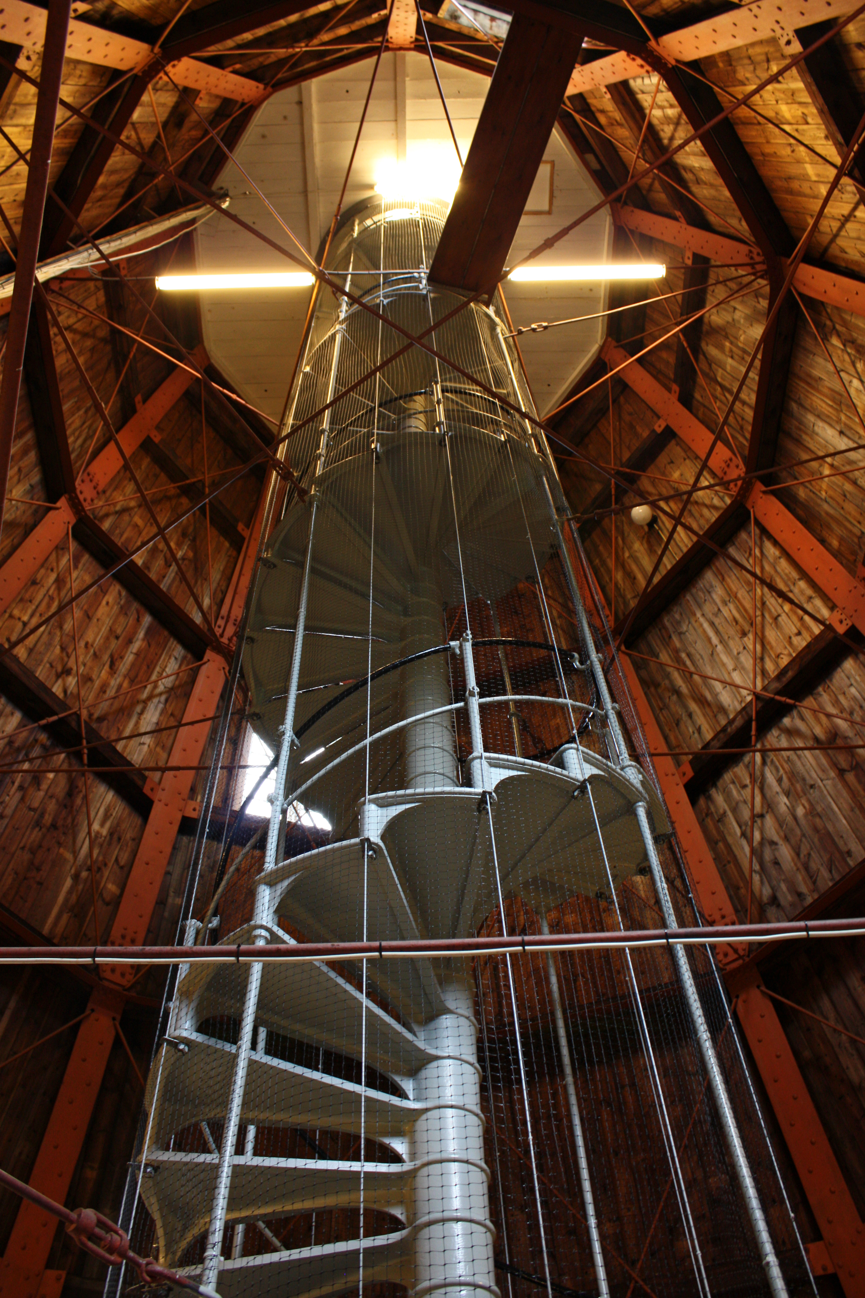 Inside the lighthouse on Gotska Sandön